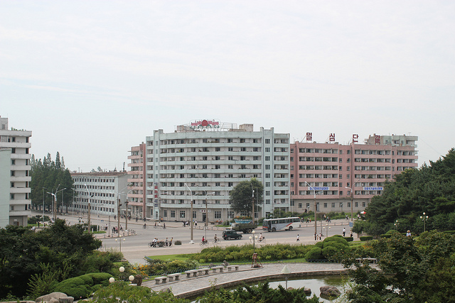 This is a view of Hamhung North Korea from the Kim Il-sung Monument .